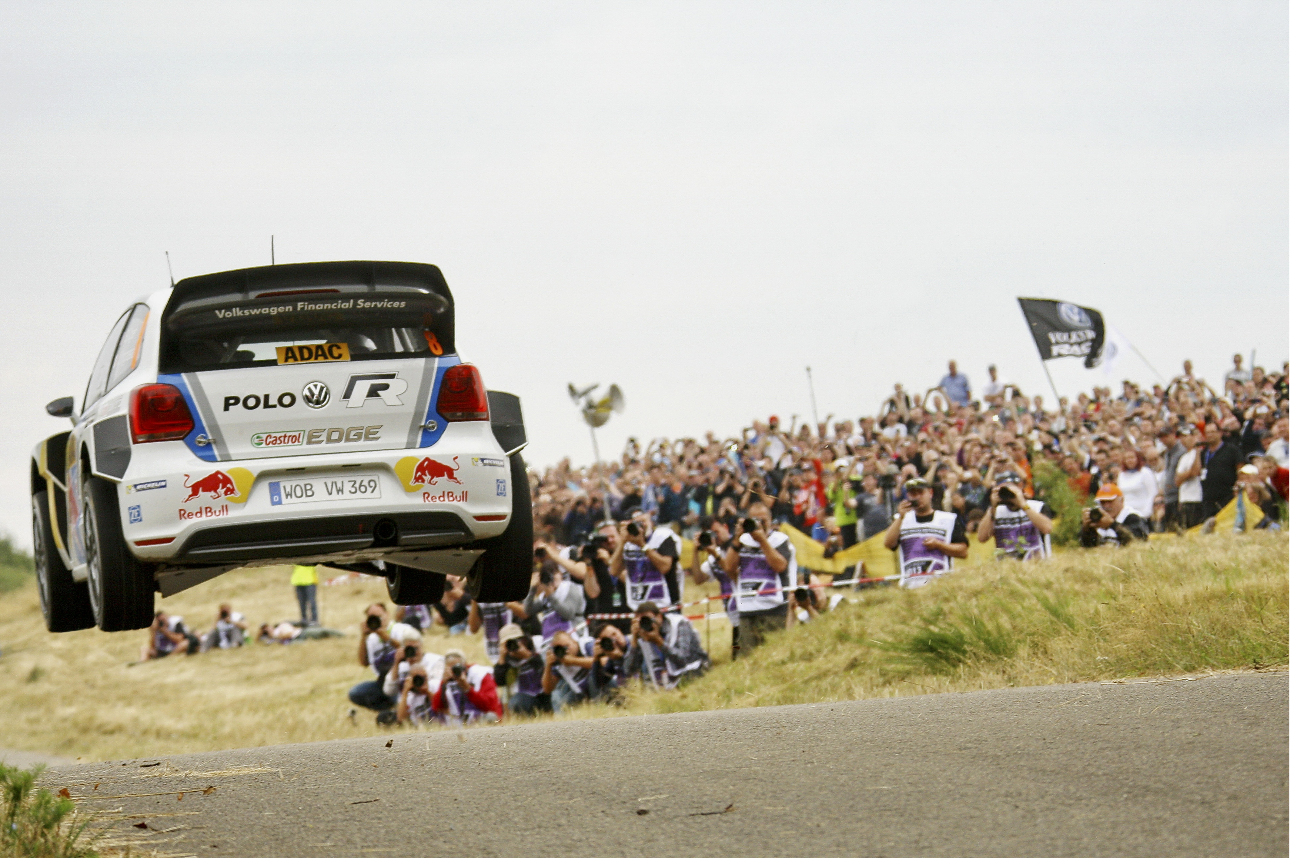 Sébastien Ogier and co-driver Julien Ingrassia in their VW Polo R WRC at the 2013 Rallye Deutschland.